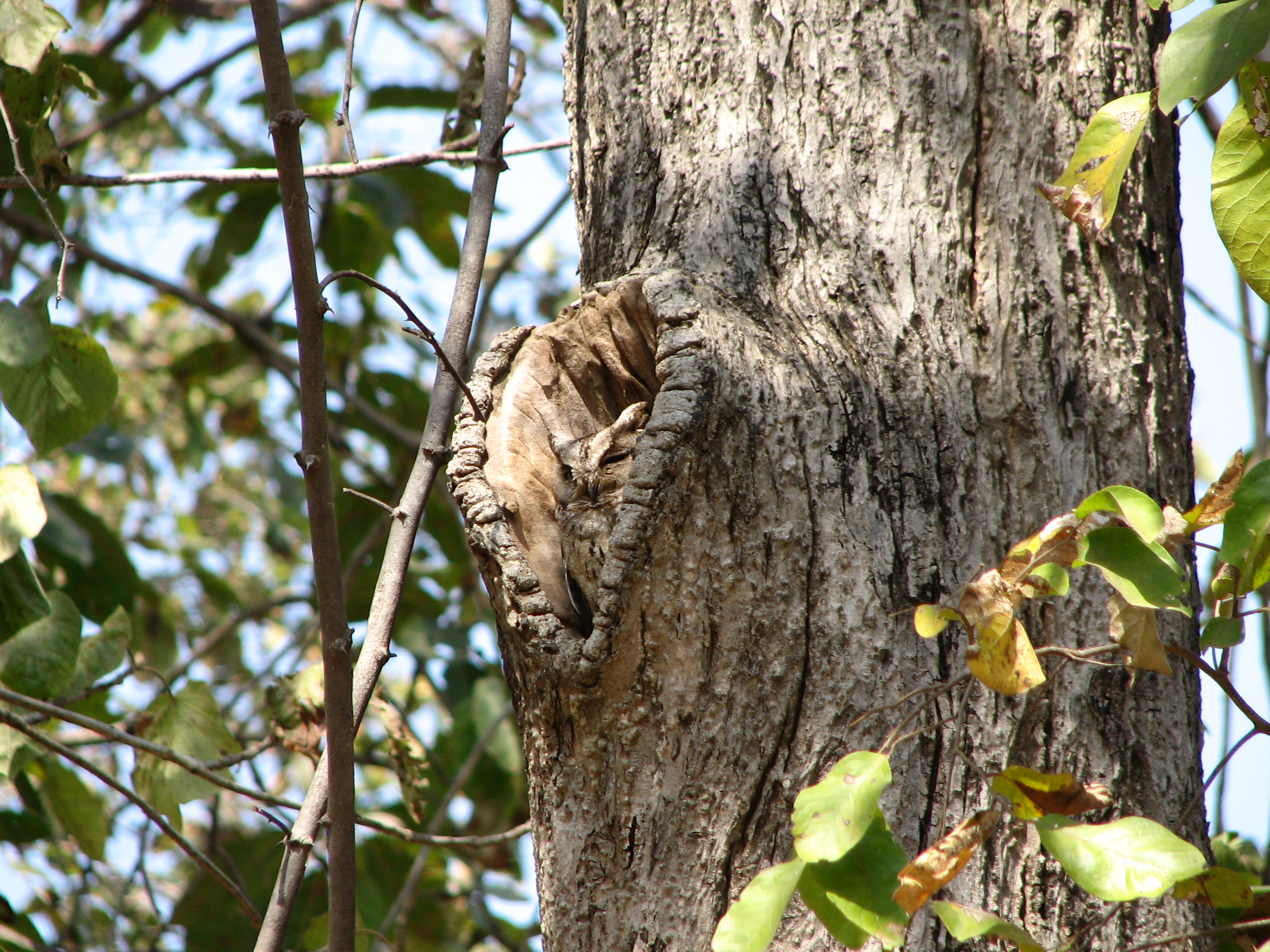 Owl sleeping in a tree hollow. Captured in Pench National Park, Madhya Pradesh, India. This is a common feature of guided tours in the park.